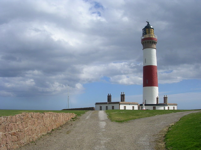 Buchan Ness Lighthouse, Boddam This lighthouse was built by Robert Stevenson in 1827. The area is prone to fog and mist so the lighthouse acquired the red stripes in 1907 to help improve its visibility. It has been electrified since 1978 and fully automated since 1988.